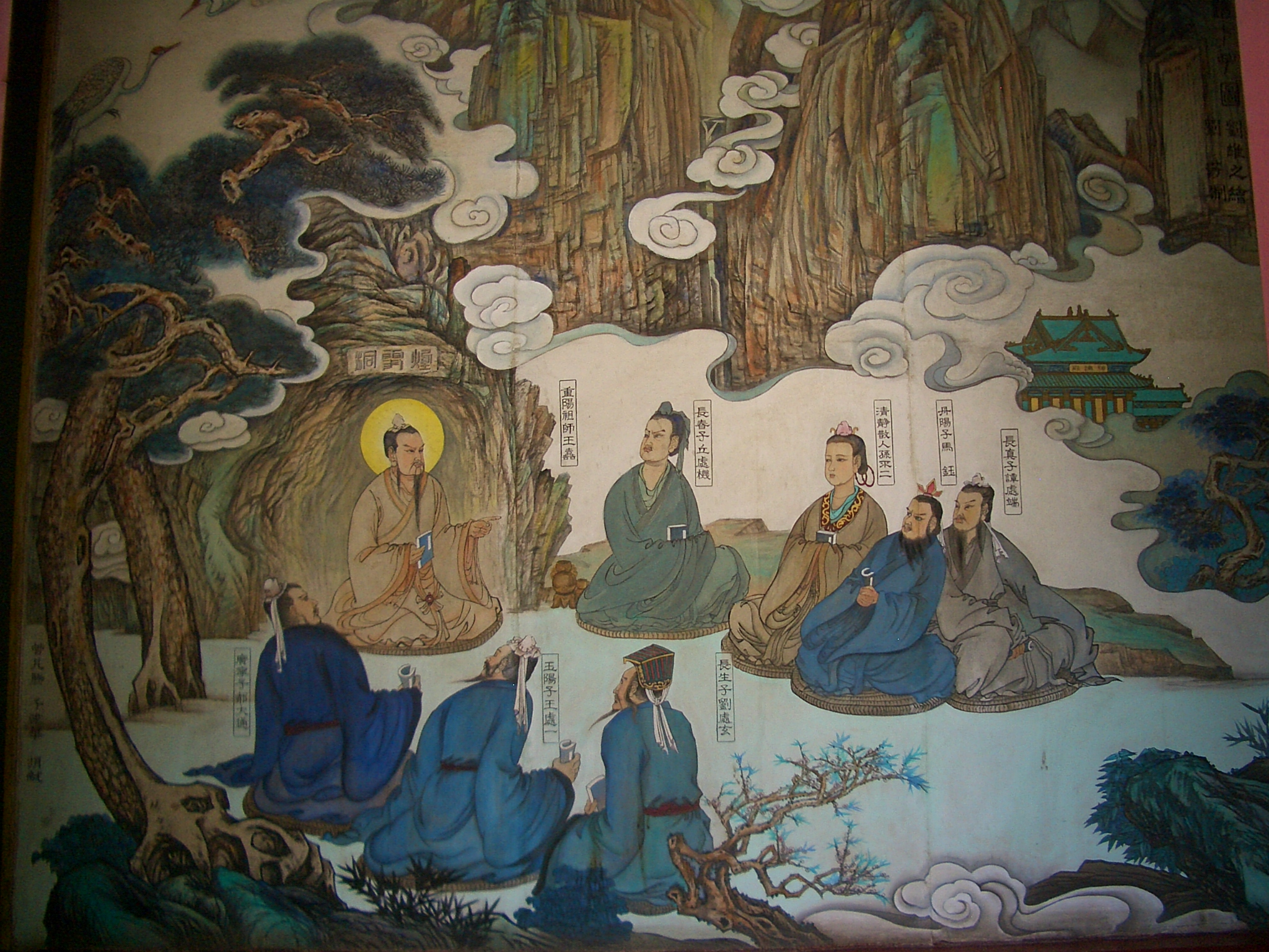 A painting in Changchun Temple, Wuhan, depicting Wang Chongyang (a.k.a. Chongyangzi (重陽子)), and his 7 disciples. The personage with the yellow nimbus around his head is Patriarch Chongyang (a.k.a. Wang Zhe) (重陽祖师王哲, Chongyang Zhushi Wang Zhe). His disciples, top row, left to right: (1) Changchunzi (長春子), a.k.a Qiu Chuji (丘處機); (2) Qingjing sanren (清净散人), a.k.a Sun Bu'er (孫不二); (3) Danyangzi (丹阳子) a.k.a Ma Yu (马钰); (4) Changzhenzi (长真子) a.k.a. Tan Chuduan (谭处端). Bottom row of disciples, left to right: (5) Guangningzi (广宁子) a.k.a. Hao Datong (郝大通) (6) Yuyangzi (玉阳子) a.k.a. Wang Chuyi (王处一) (7) Changshengzi (长生子) a.k.a Liu Chuxuan (刘处玄)